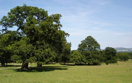 Kinmel Park. Kinmel Park surrounds Kinmel Hall, formerly a School - now closed to the public.